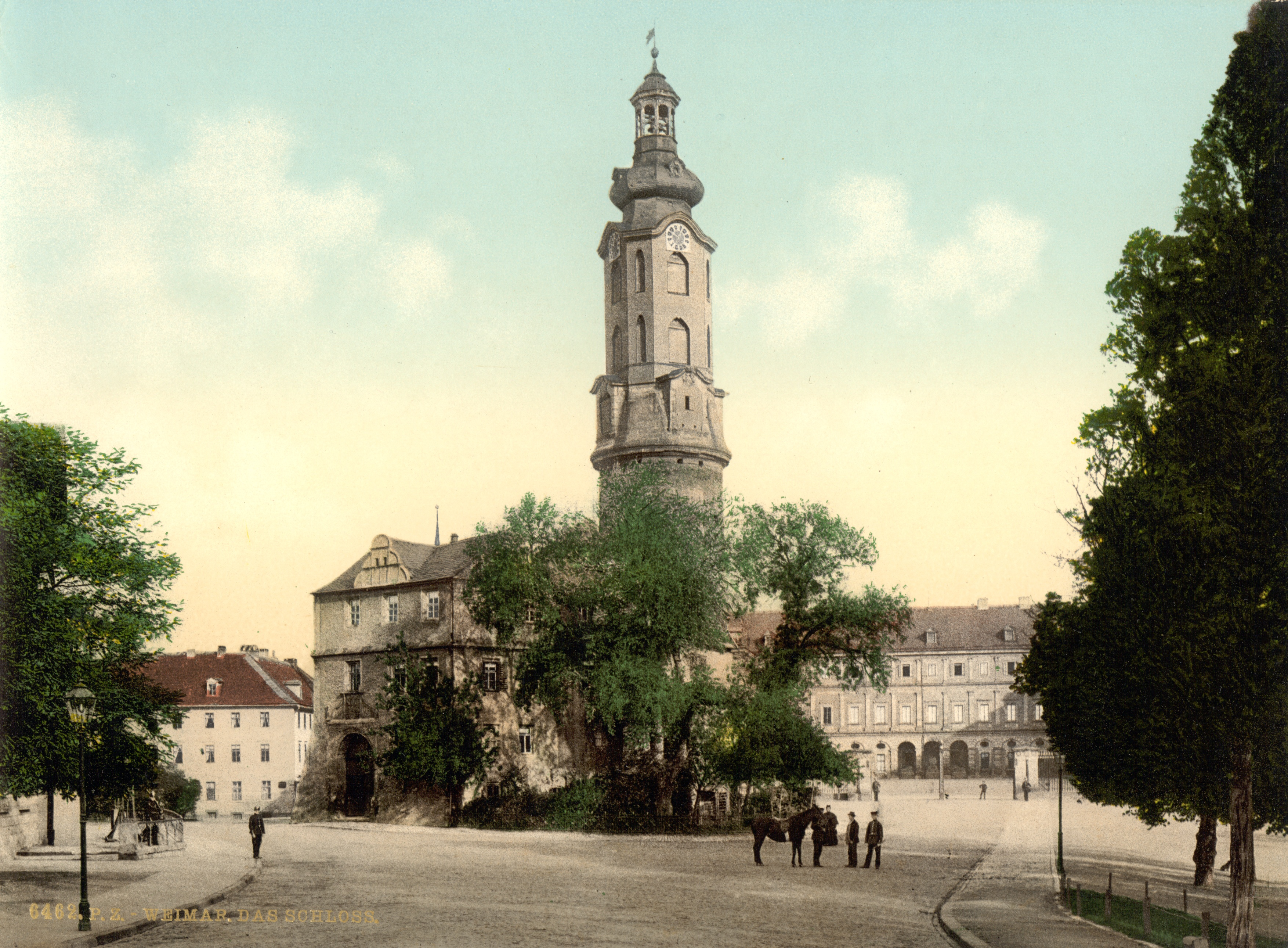 The castle, Weimar, Thuringia, Germany Print no. "6462"